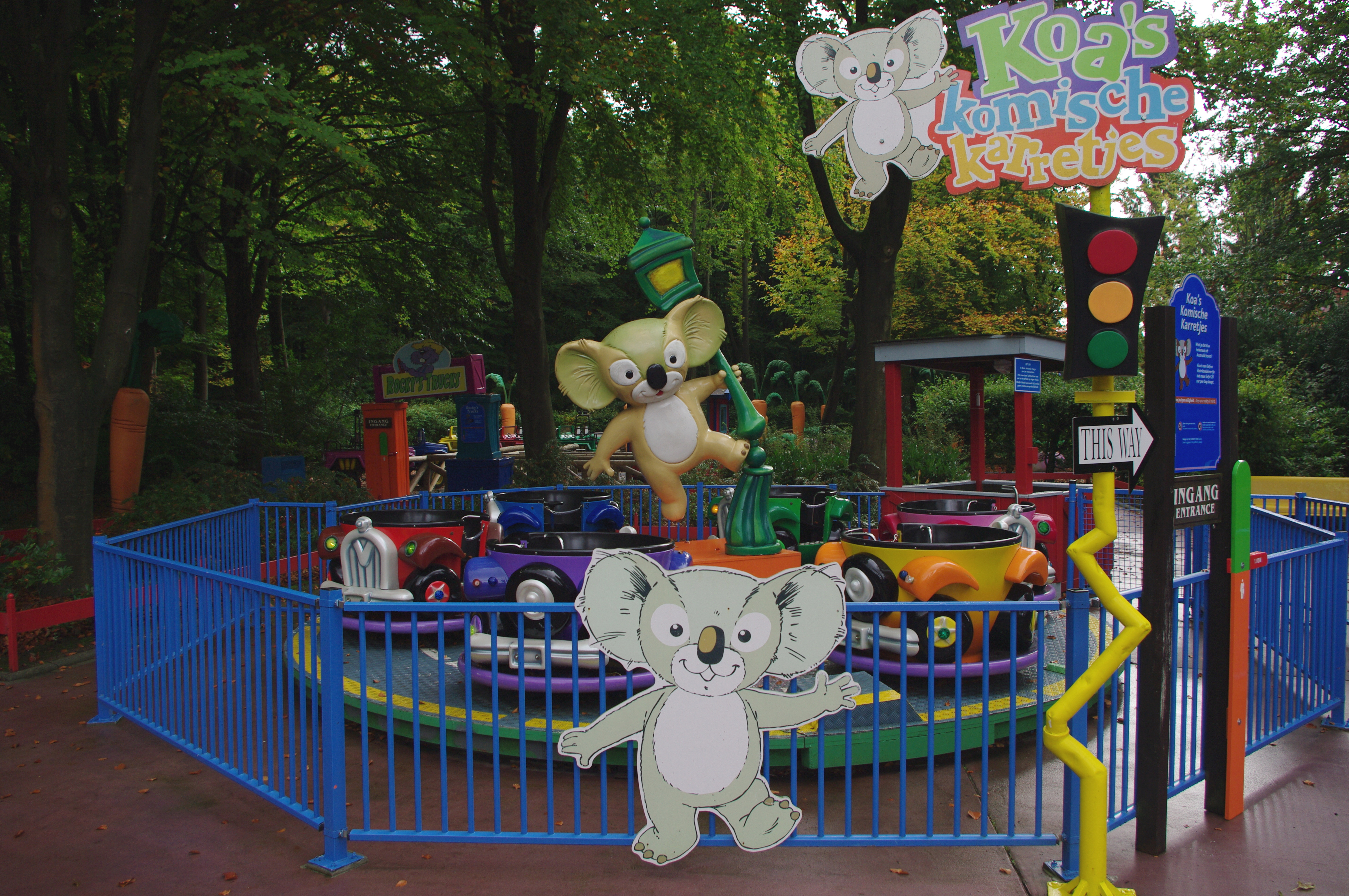 Koa's Komische Karretjes in the Dutch themepark Walibi World.